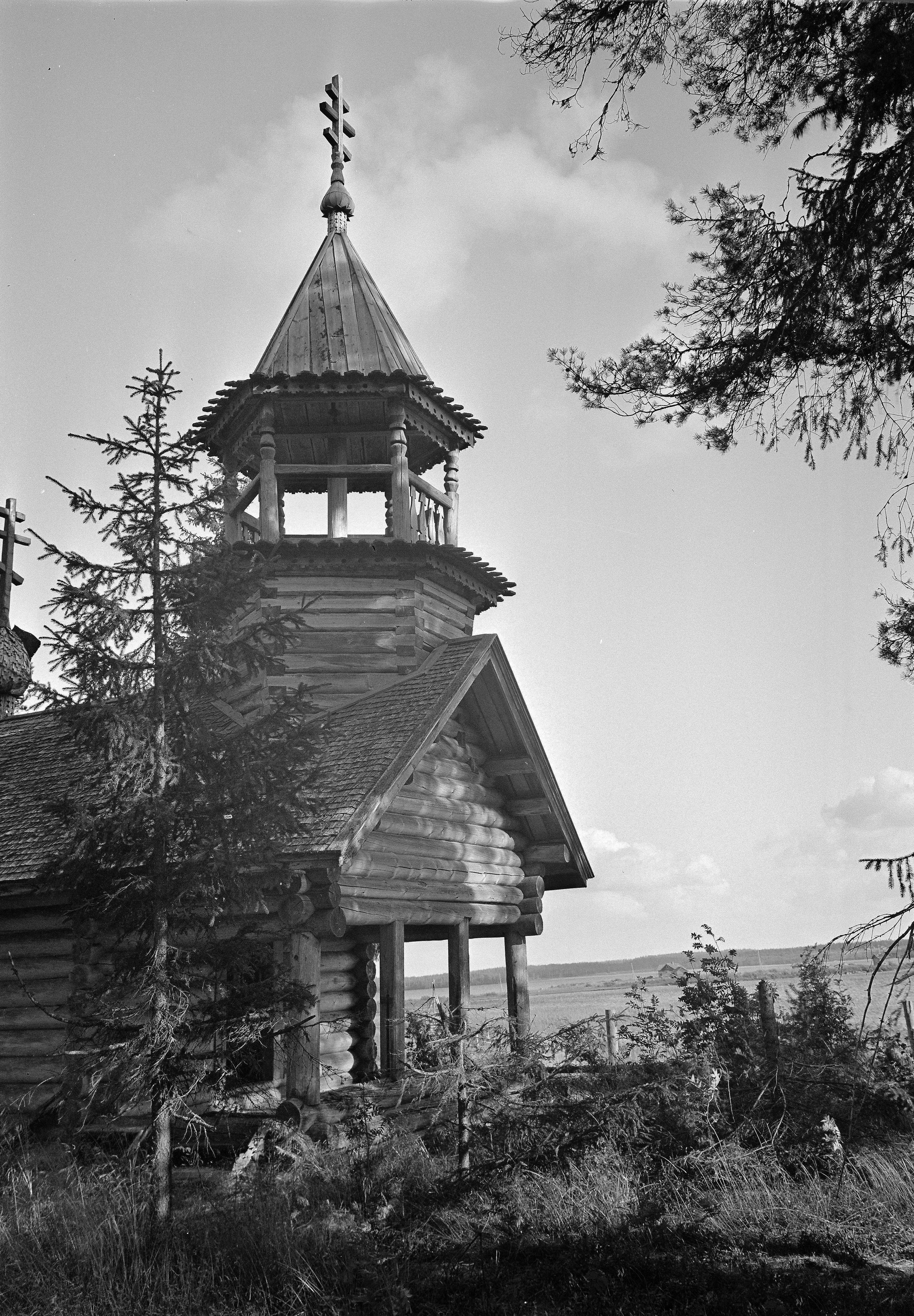 Orthodox chapel in Ägläjärvi.